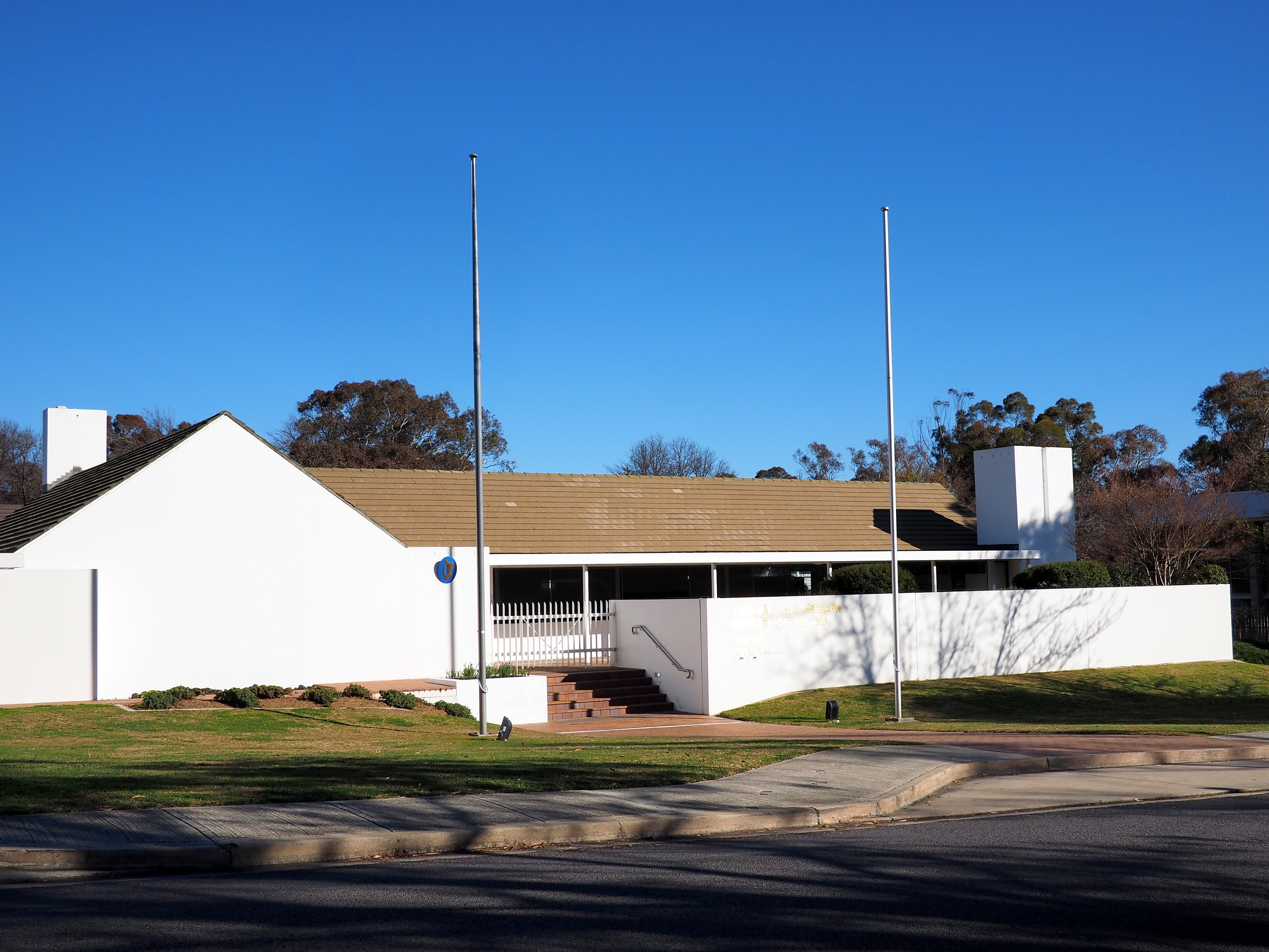 The Embasy of Ireland to Australia